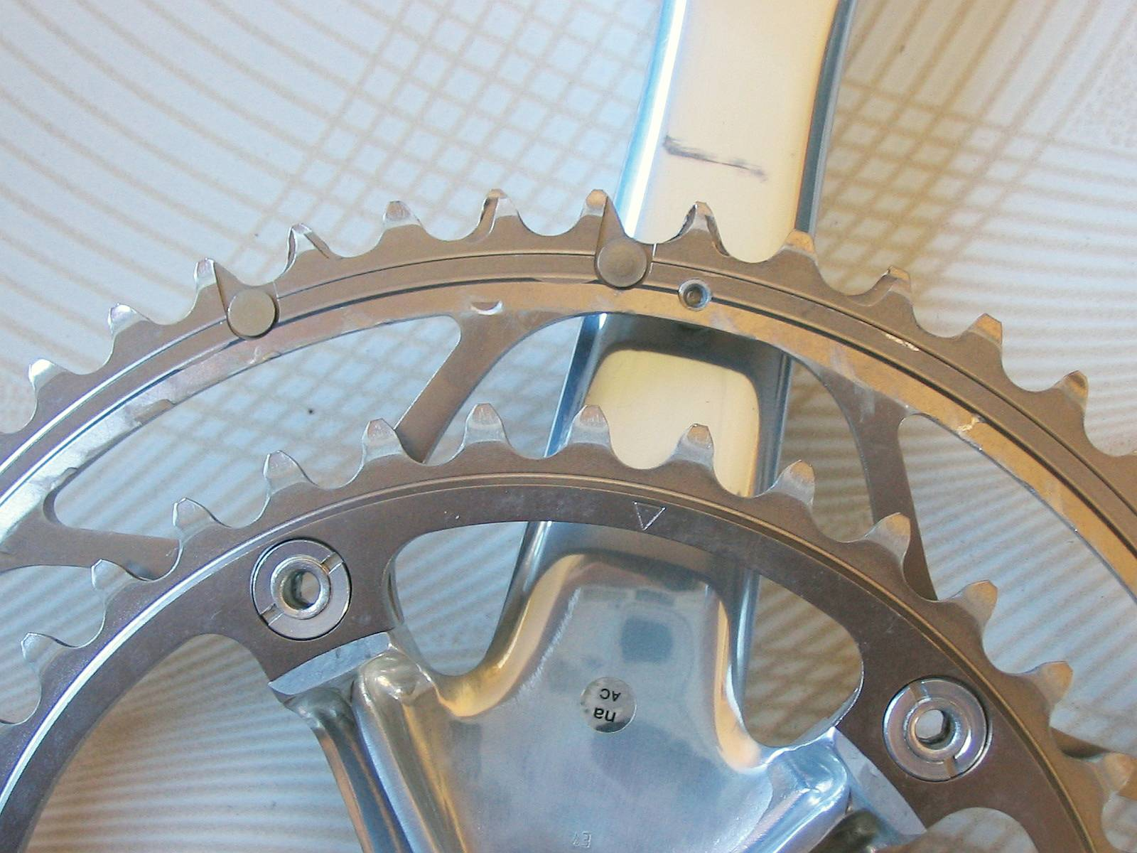 Shimano SuperGlide-X chainrings on Dura-Ace crankset